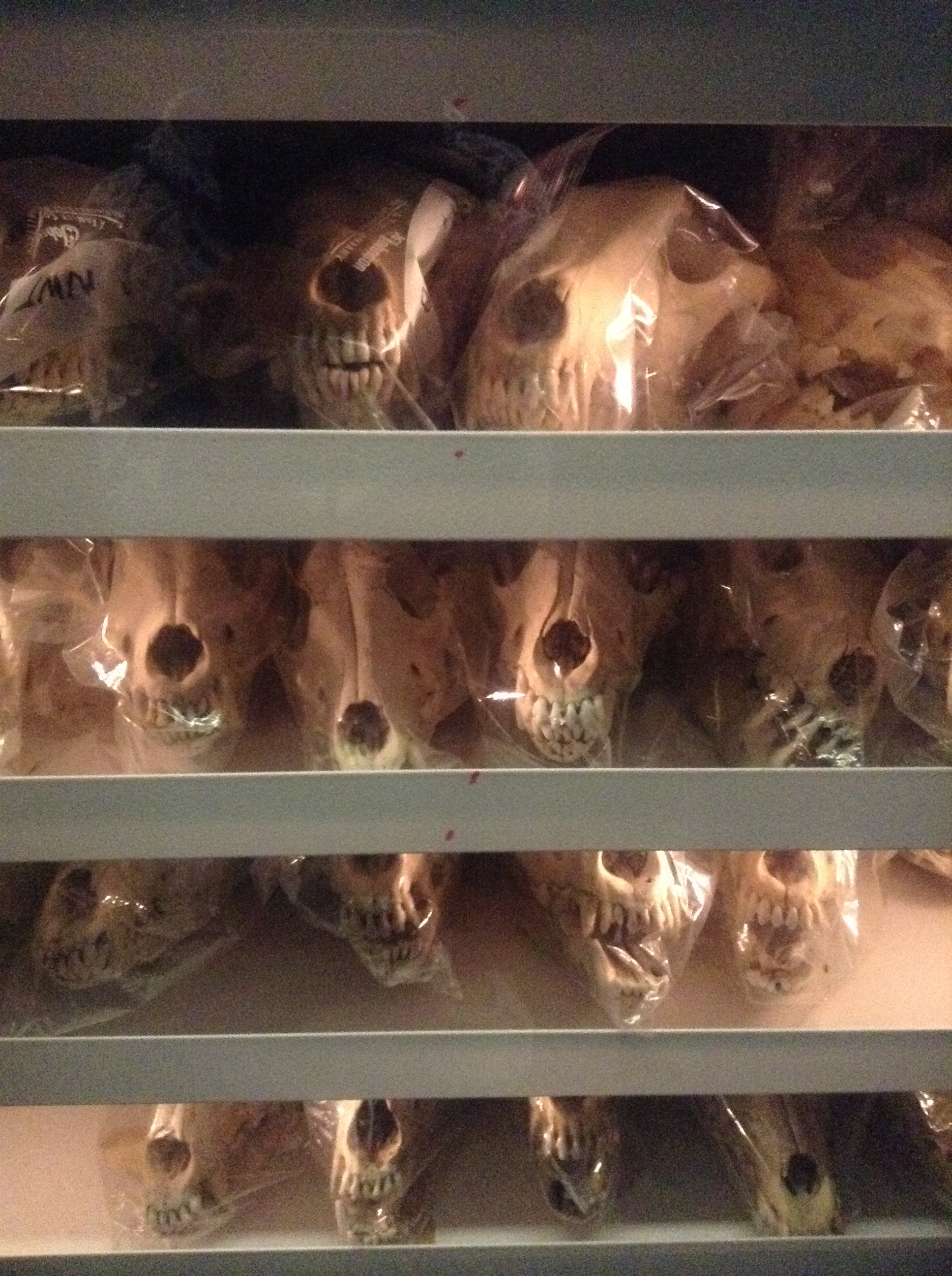 Beaty Biodiversity Museum LocationVancouver, British Columbia, CanadaCoordinates49° 15′ 48.96″ N, 123° 15′ 05.04″ W Established2010Web pageBeaty Biodiversity MuseumAuthority control : Q4120770 institution QS:P195,Q4120770